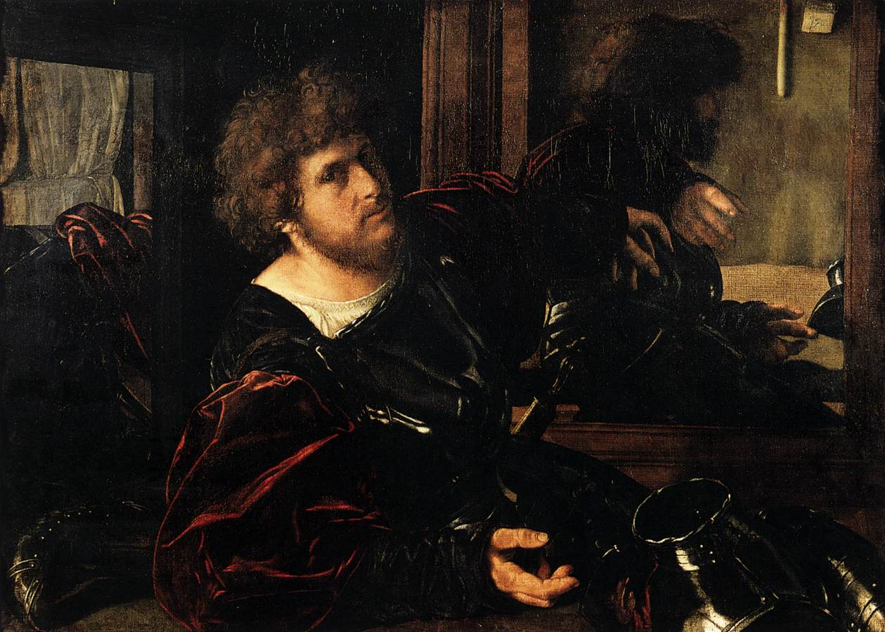 The subject is traditionally identified with the French military leader Gaston of Foix, Duke of Nemours, or a self-portrait, although there is no documentary evidence of both hypotheses.